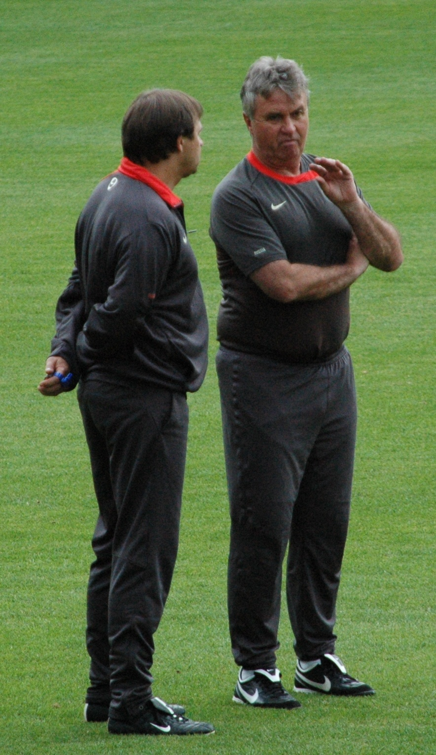 Guus Hiddink and Borodyuk at EURO 2008